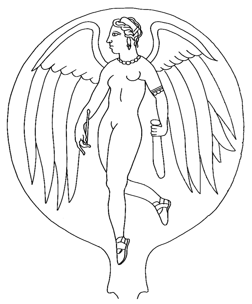 Etruscan mirror from the Metropolitan Museum of Art with Lasa holding a alabastron and a perfume.